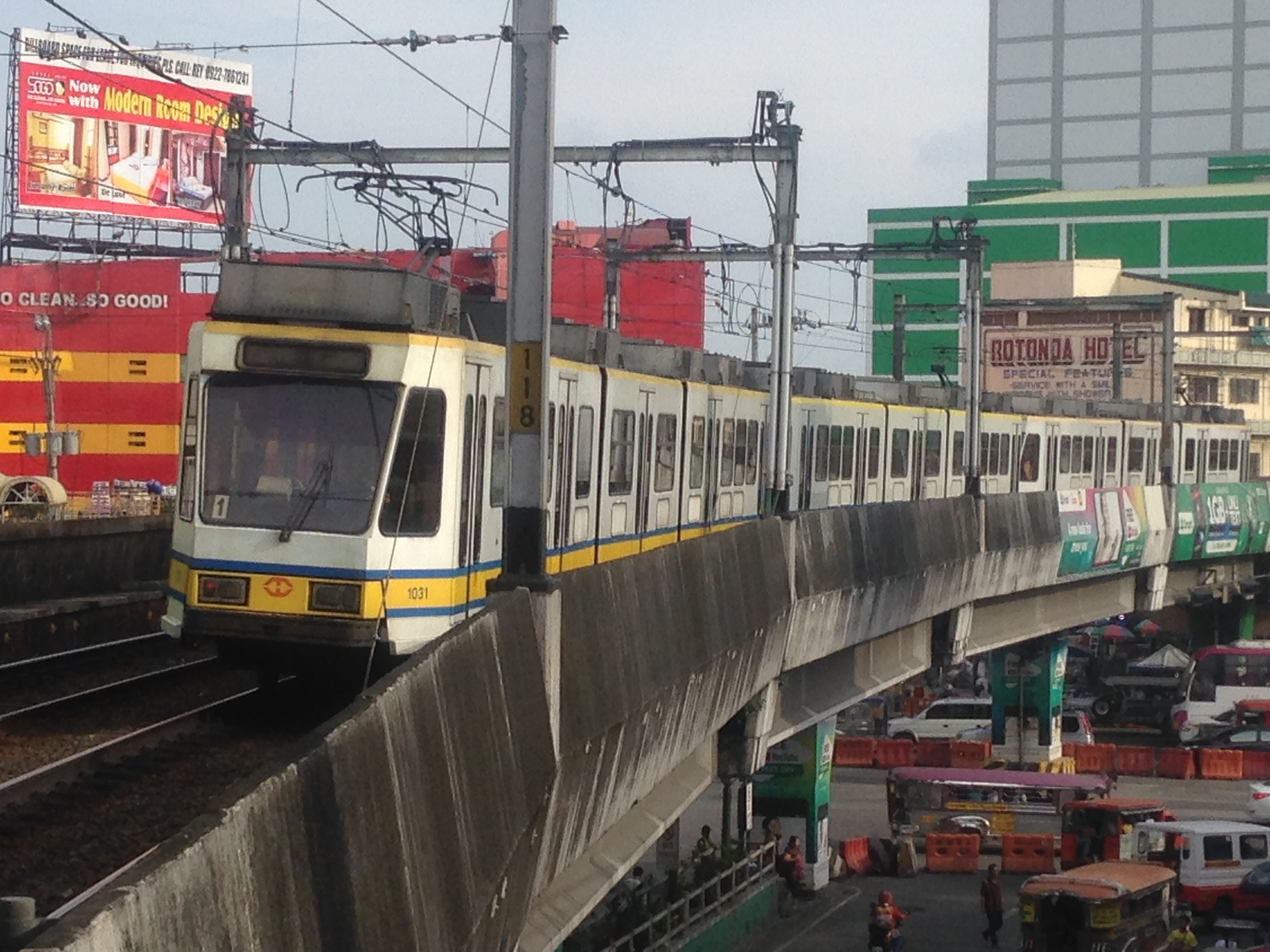 Taken at EDSA LRT Station on LRT1.